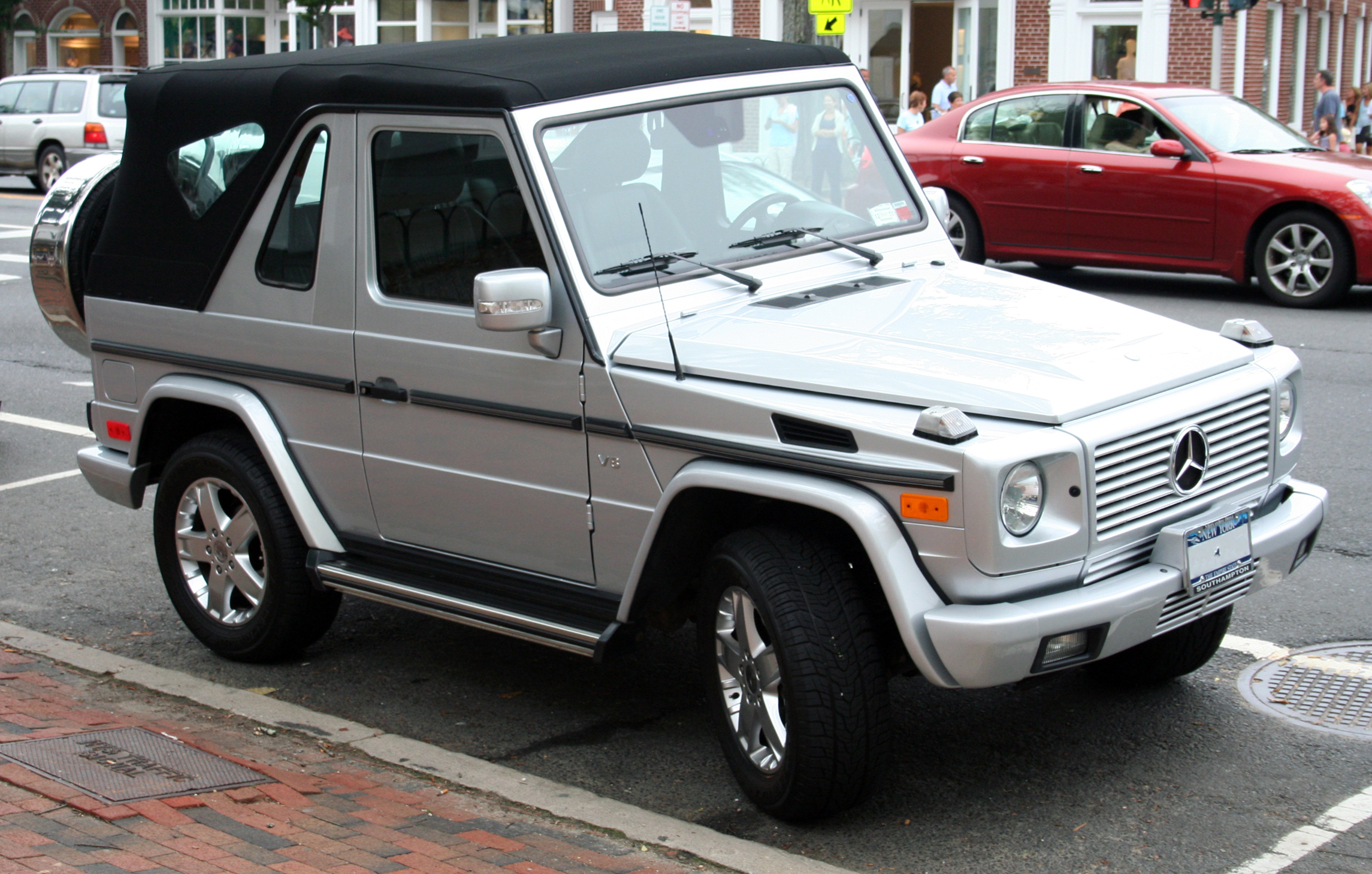 Mercedes G500 Cabriolet in East Hampton, NY